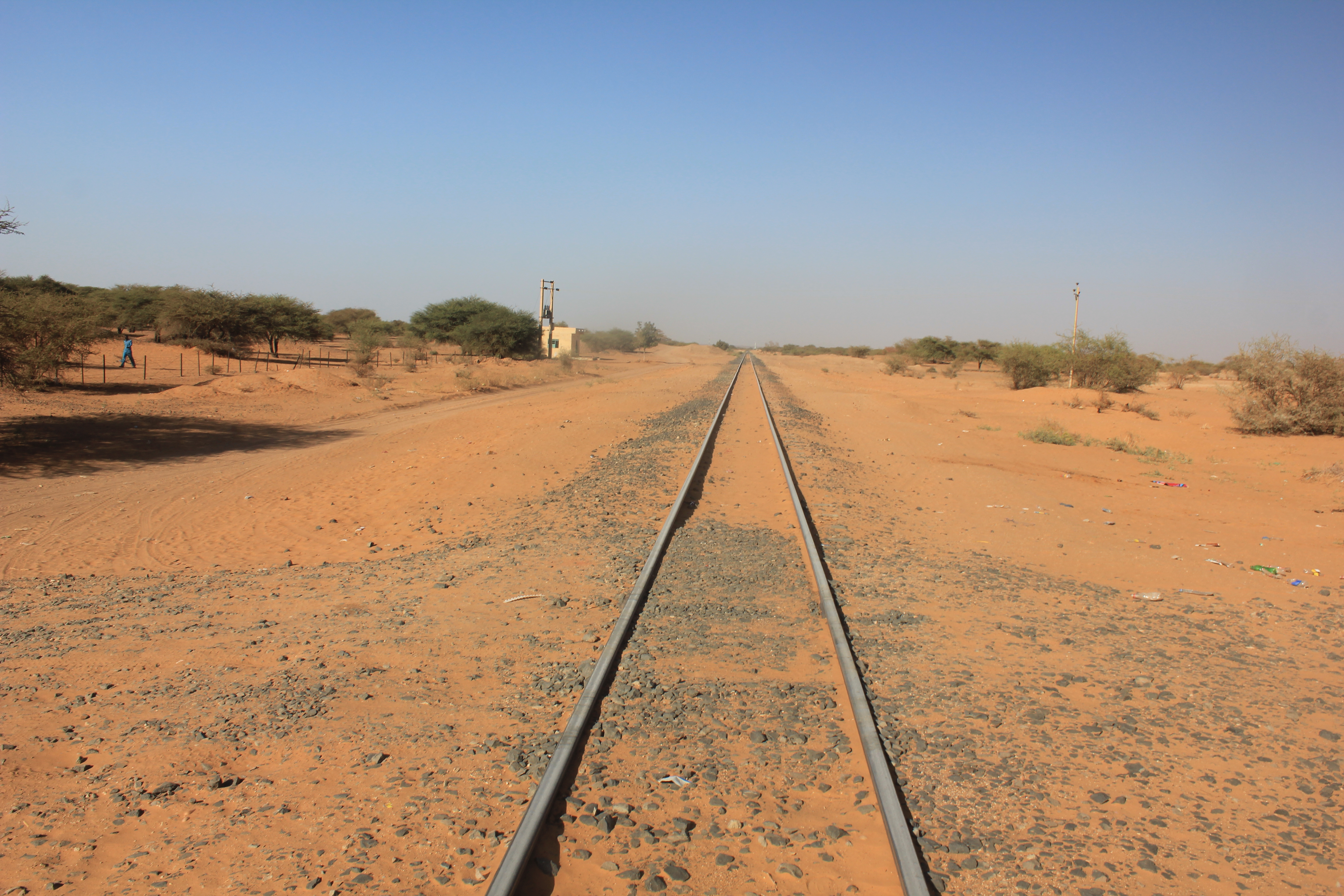 Sudan Railway tracks at Meroe